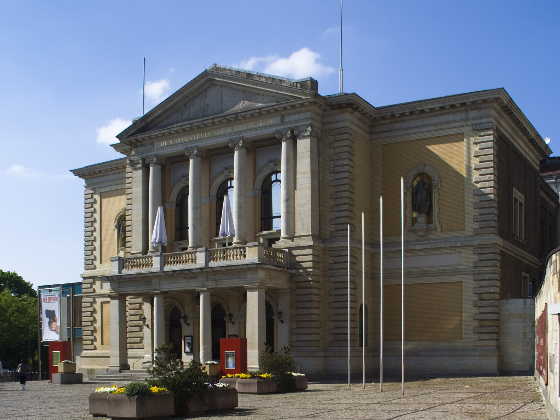 The Opera House of Halle, Saxony-Anhalt